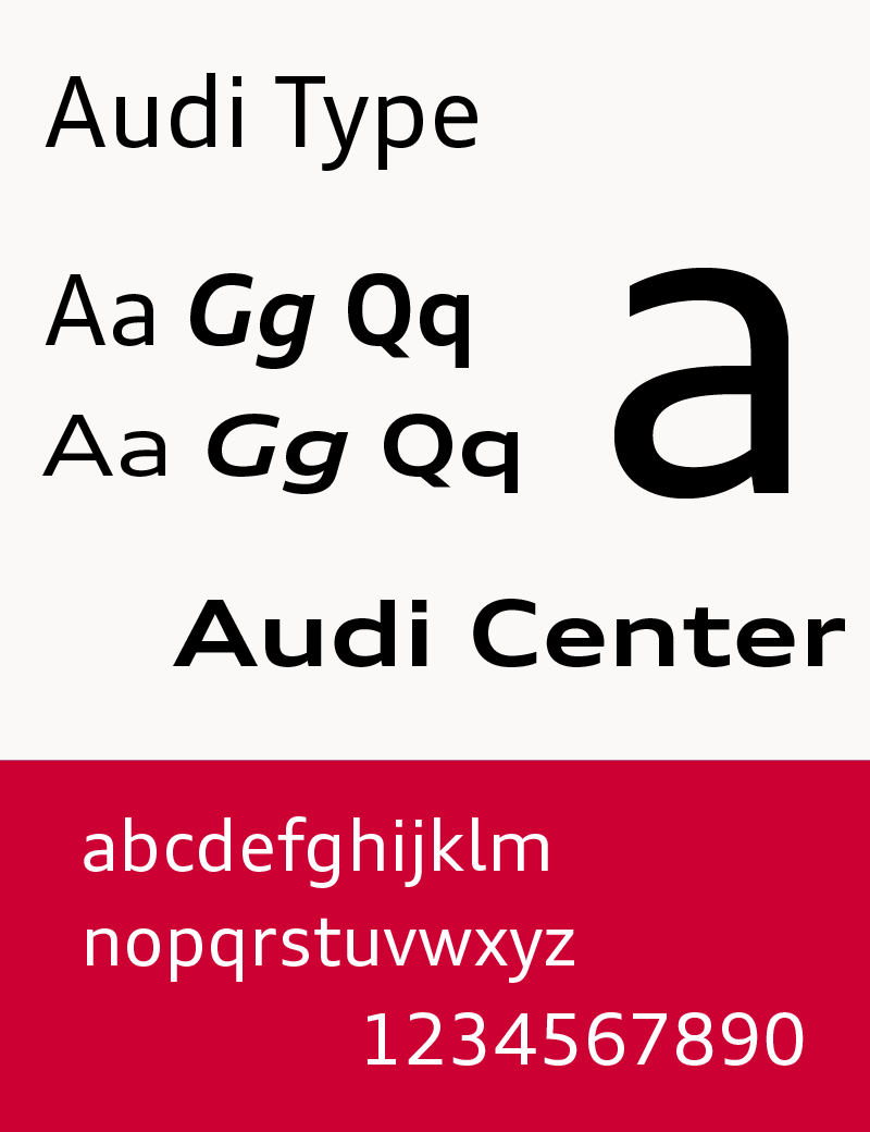 Sample of Audi Type (typeface)